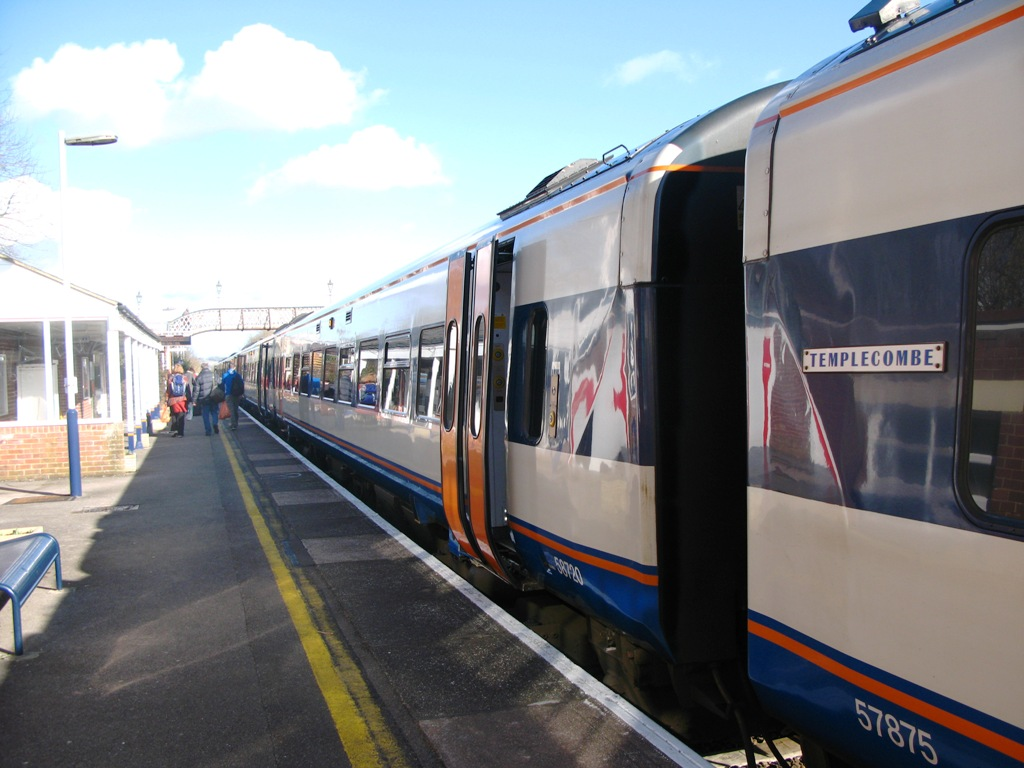 Passenegrs alight from South West Trains' unit 159003 Templecombe at Templecombe station, Somerset, England.